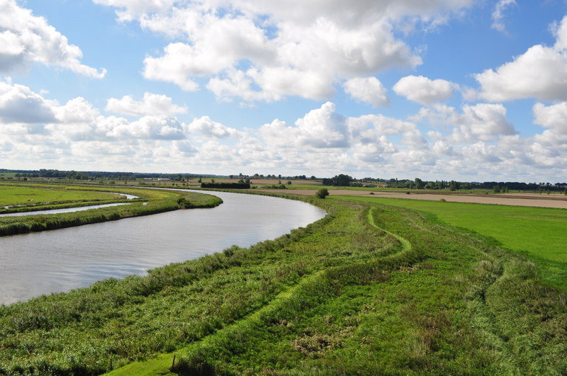 View from Hardley Windpump, near to Hardley Street, Norfolk, Great Britain. See also SP0937 : Broadway High Street . The River Yare can be seen at at meander nearing the junction with the Chet. I didn't know it but there was once a drainage complex here, an earlier mill was sited between the little tree and the conifers. If you took an opposite look towards Cantley then you would be looking at the site of another now demolished mill and steam pumping station. Rather oddly this mill replaced the steam engine! The path if the Wherryman's Way.